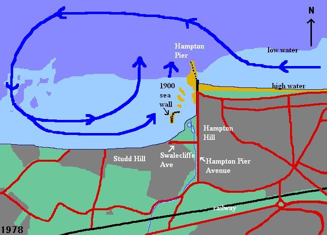 Hand-drawn map of the erstwhile site and later 1978 surroundings of the drowned coastal village Hampton-on-Sea, Herne Bay, Kent, England. Based on 1978 OS map. The map was drawn to illustrate the theory that the cause of the erosion which destroyed Hampton-on-Sea could be an eddy initiated by the existence of the pier and the adjacent coastal formation.